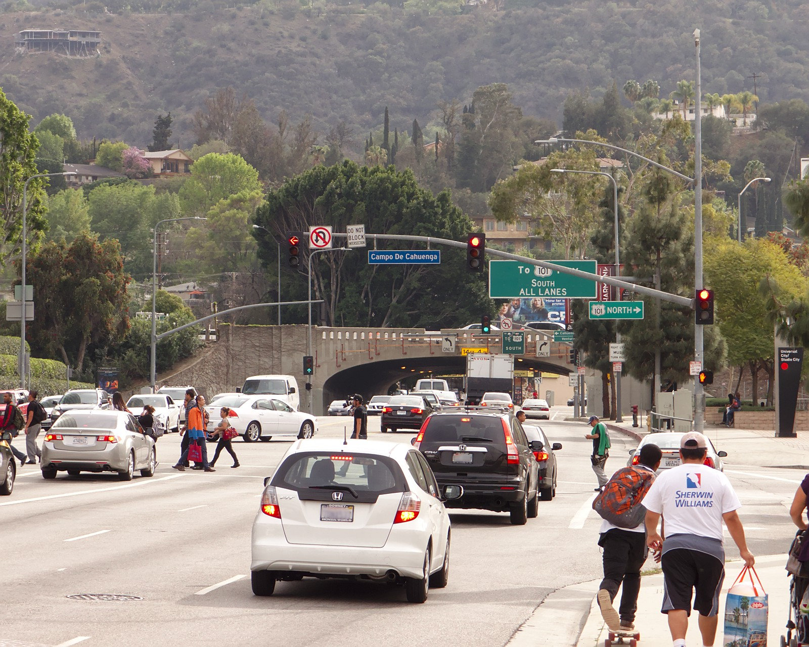 Looking south on Lankershim Boulevard as it approaches the Hollywood Freeway and Ventura Boulevard in the Studio City neighborhood of Los Angeles, California.